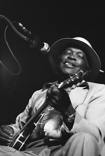 Massey Hall, Toronto, Aug. 20, 1978 Photo by Jean-Luc Ourlin